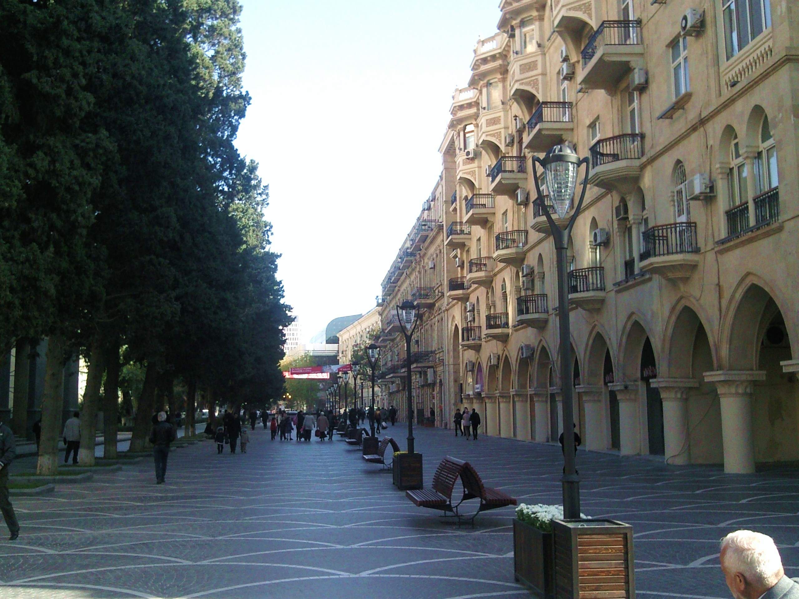 View on Opera theater from Nizami street, Baku, Azerbaijan.